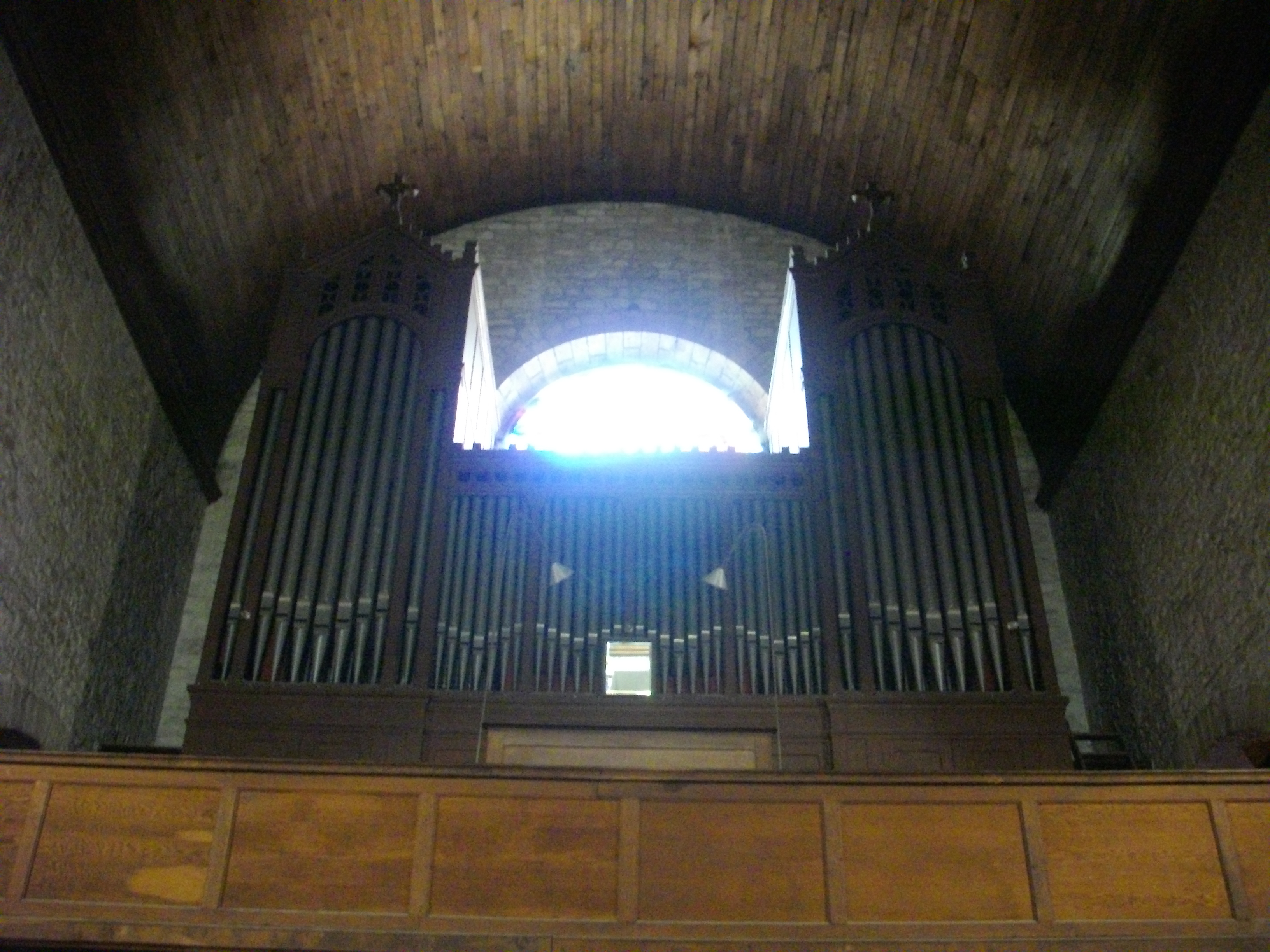 Holy Salvator church of Redon (Ille-et-Vilaine, France), pipe organ .